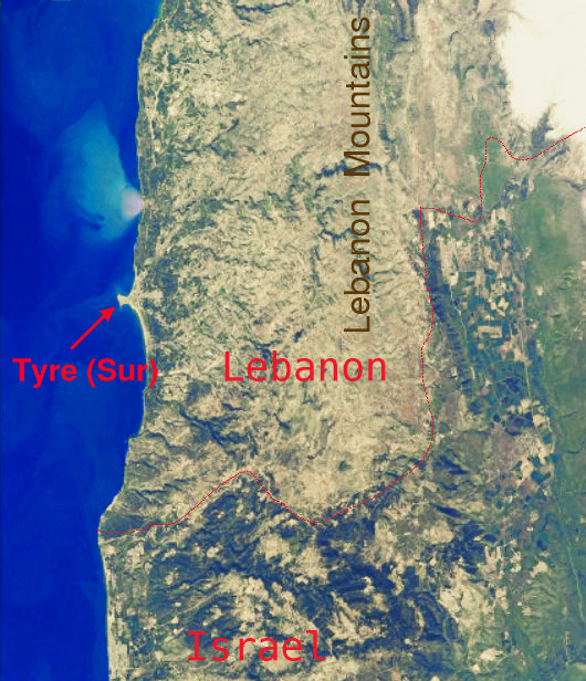 Tyre (Sur) peninsula at satellite photo of Lebabon South